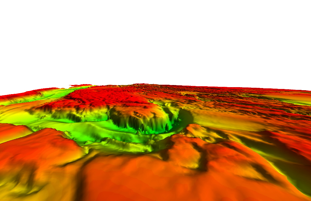 The horseshoe-shaped channel of the main cataract at Celilo Falls stands out in a sonar image of the river bottom upriver from The Dalles Dam.